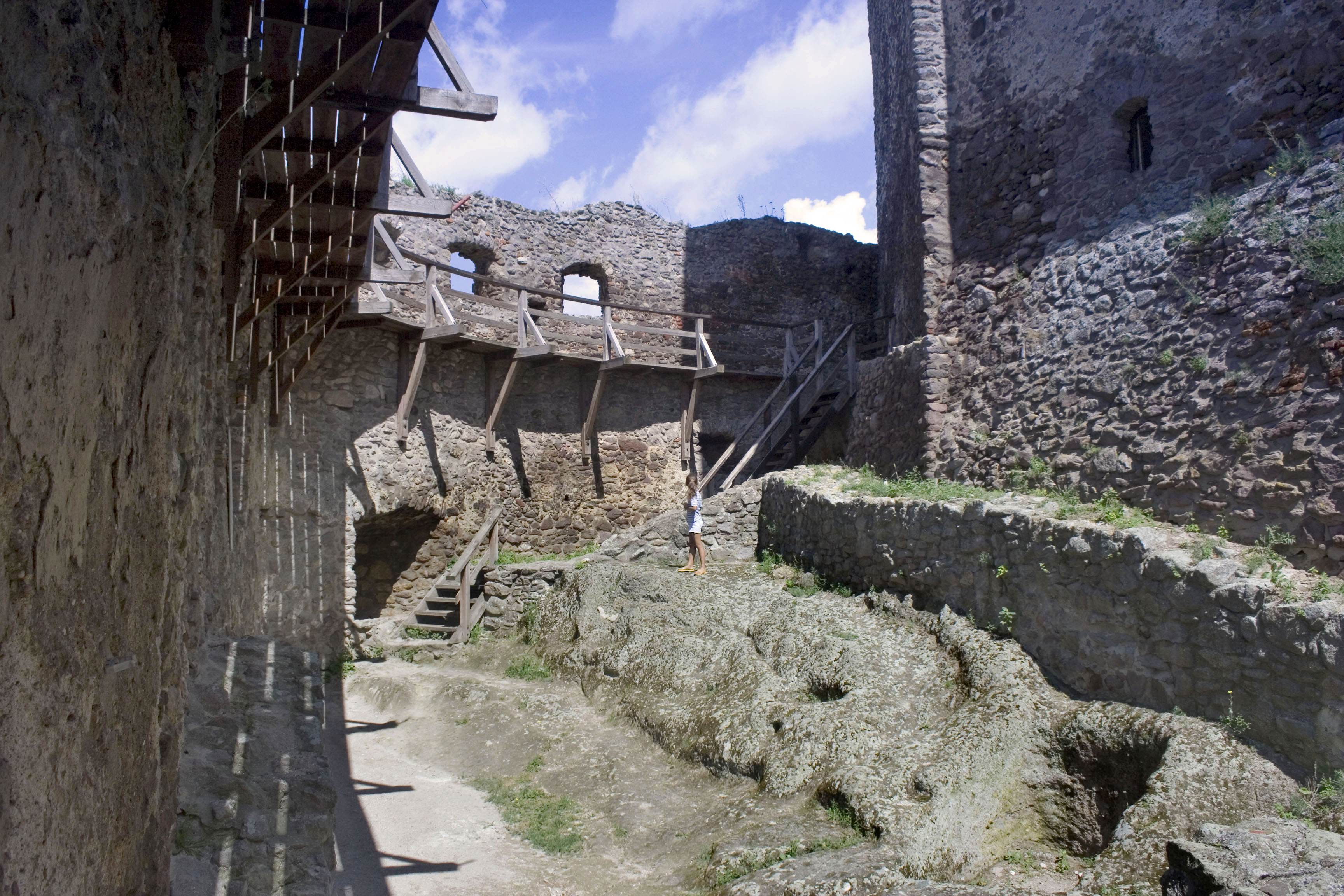 Hungary / Boldogkő Castle -courtyard